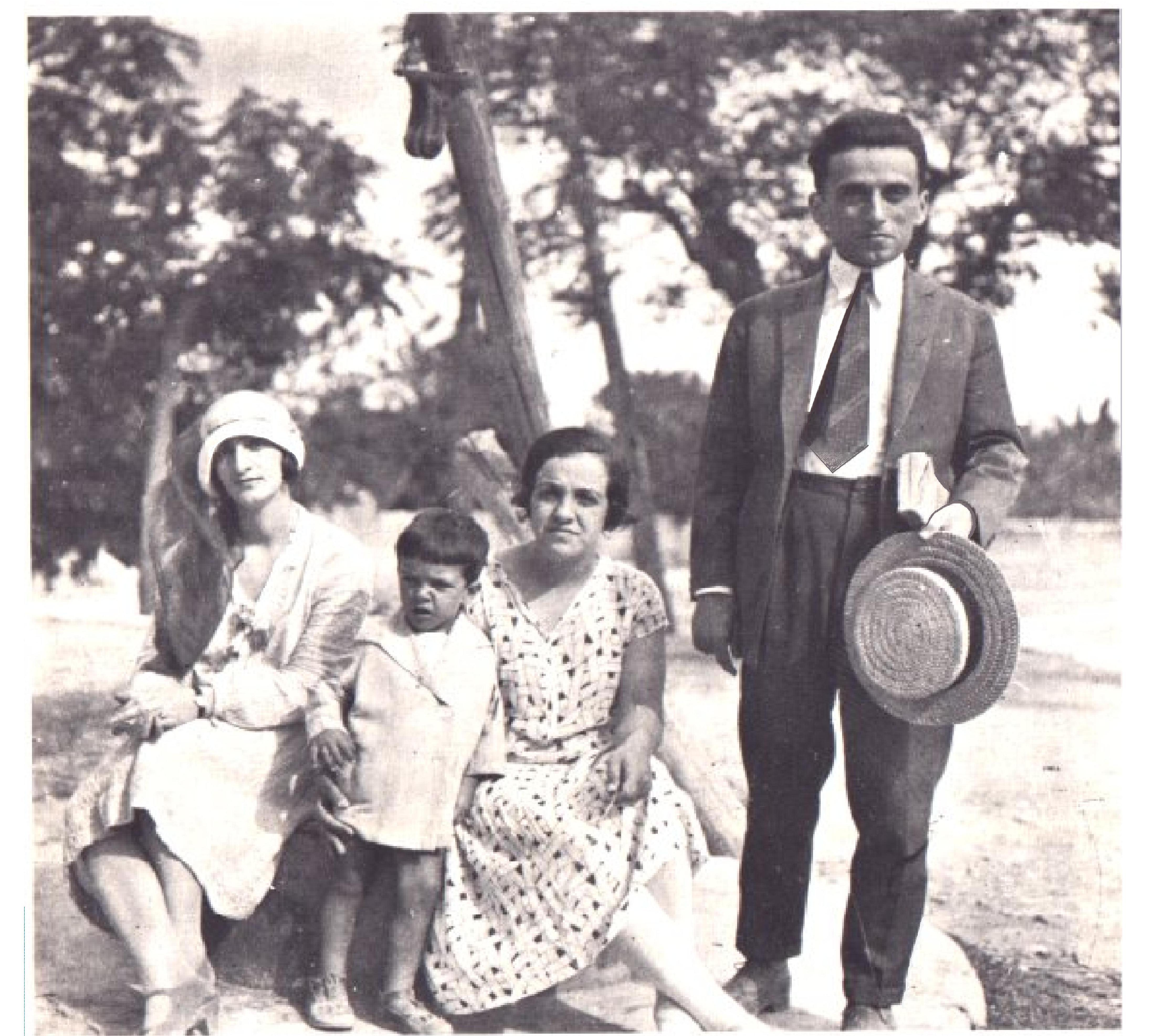 Kostas Karyotakis in Preveza